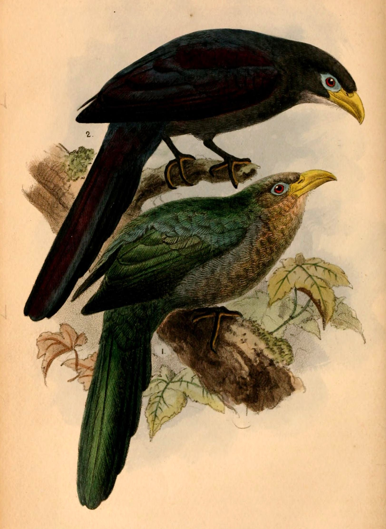 « Ceuthmochares australis » = Ceuthmochares australis (Whistling Yellowbill) « Ceuthmochares aereus » = Ceuthmochares aereus (Chattering Yellowbill)